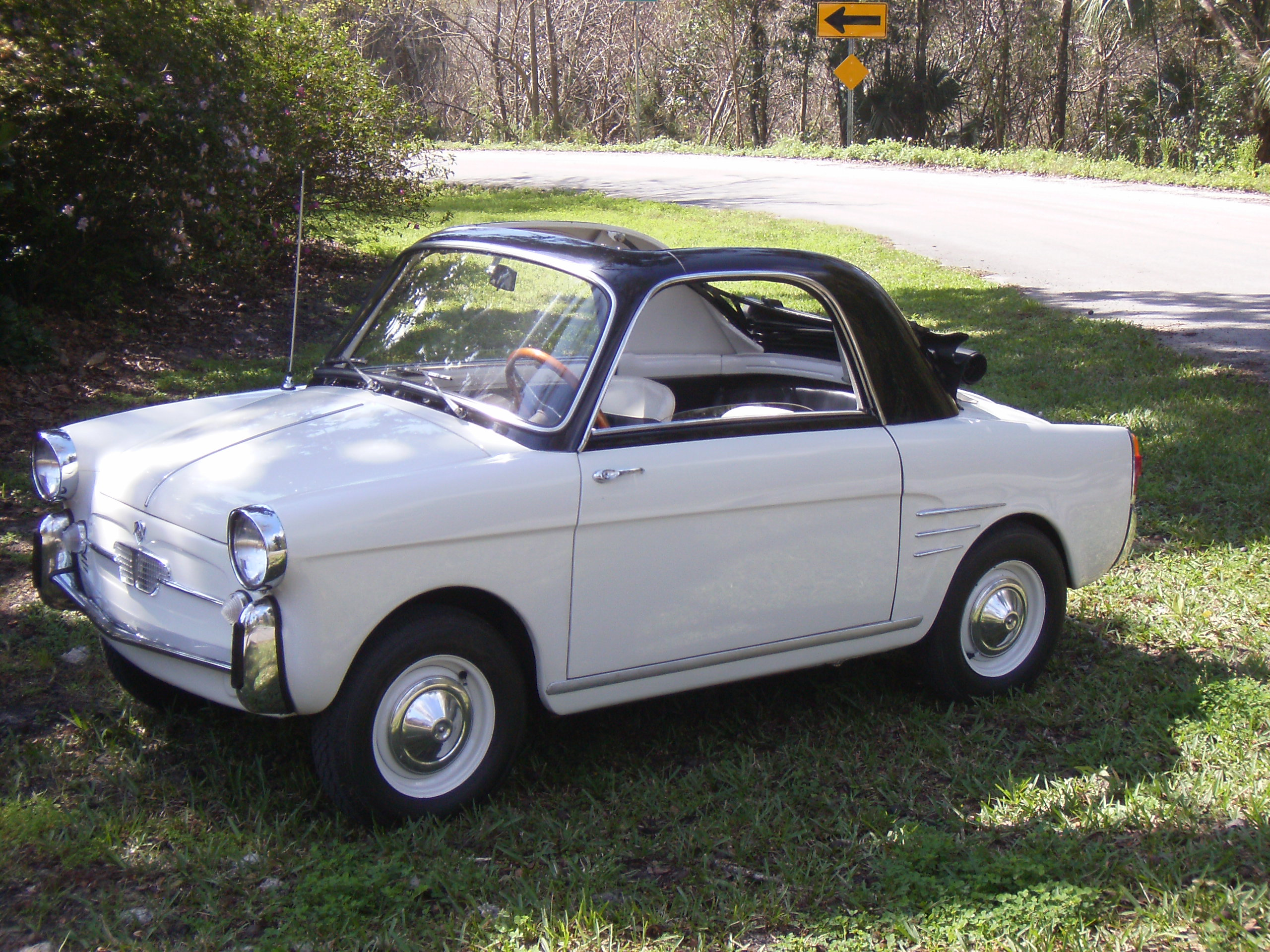 1961 Autobianchi Bianchina Trasformabile - Deland, FL February 2014